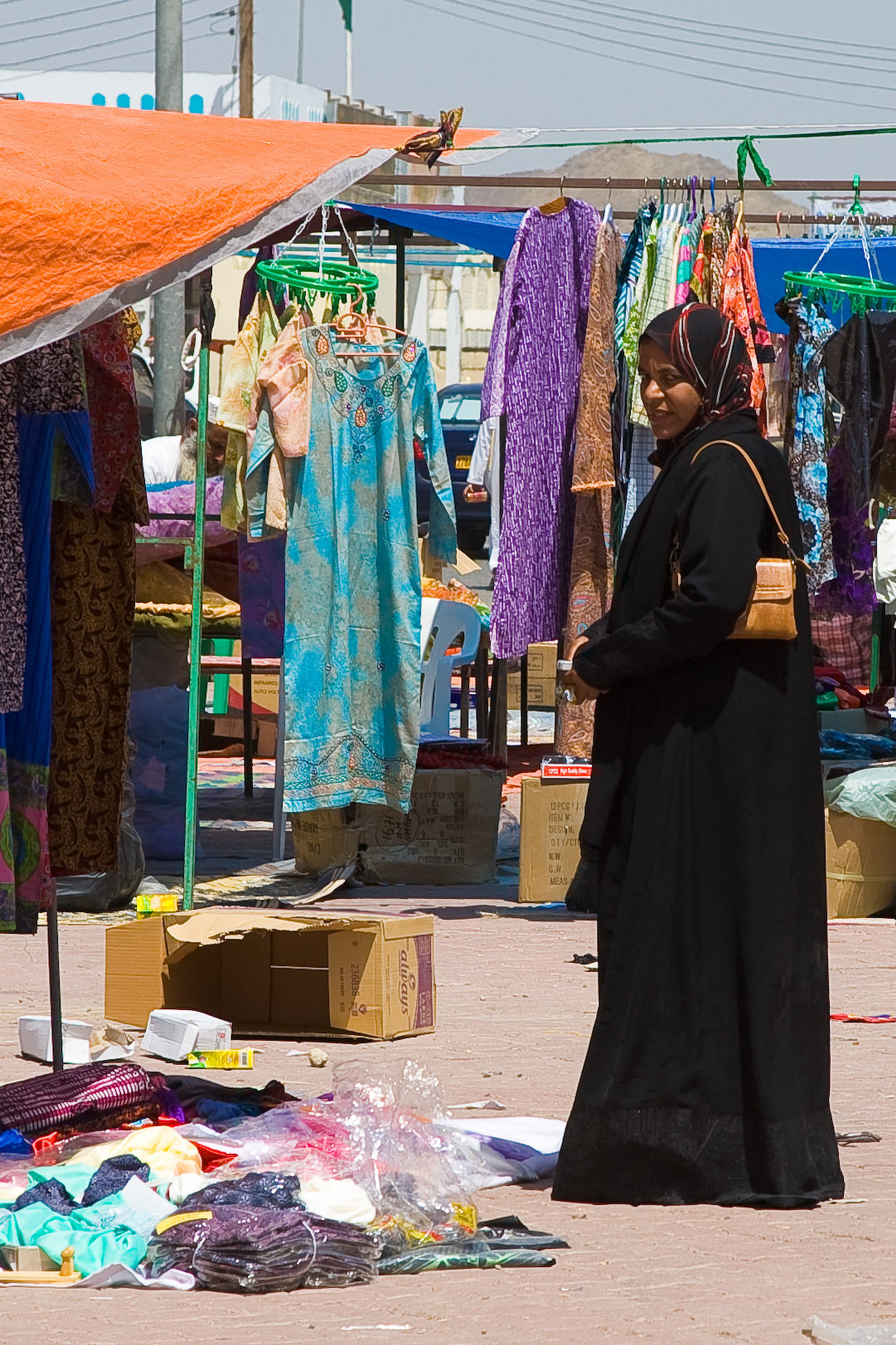 Ibra, Oman